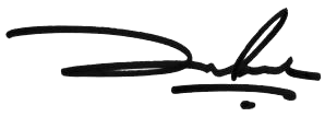 Signature of Shah Rukh Khan